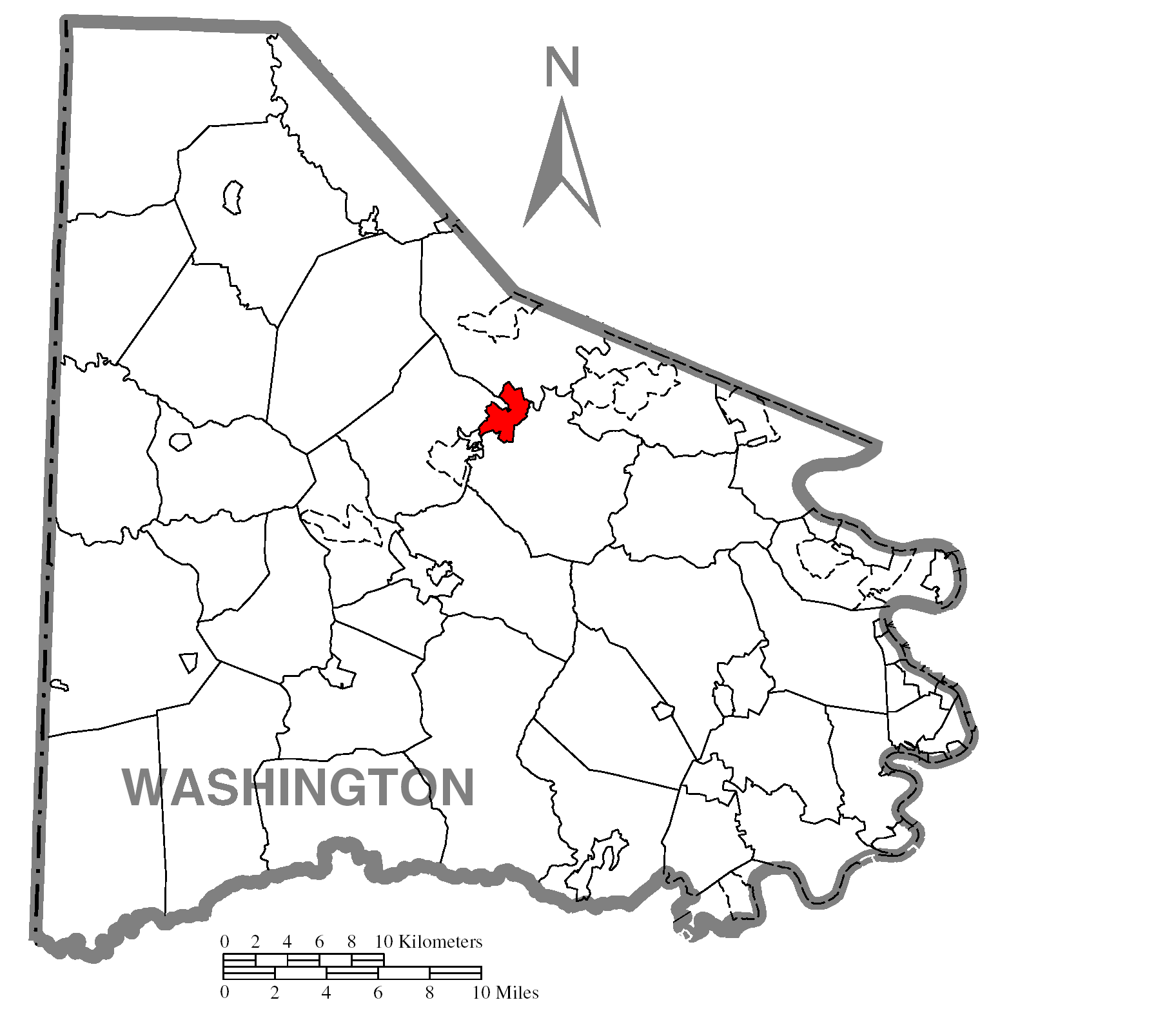 Map of Washington County higlighting Canonsburg.